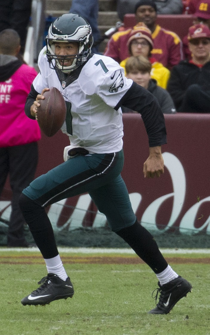 Eagles at Redskins 10/04/15